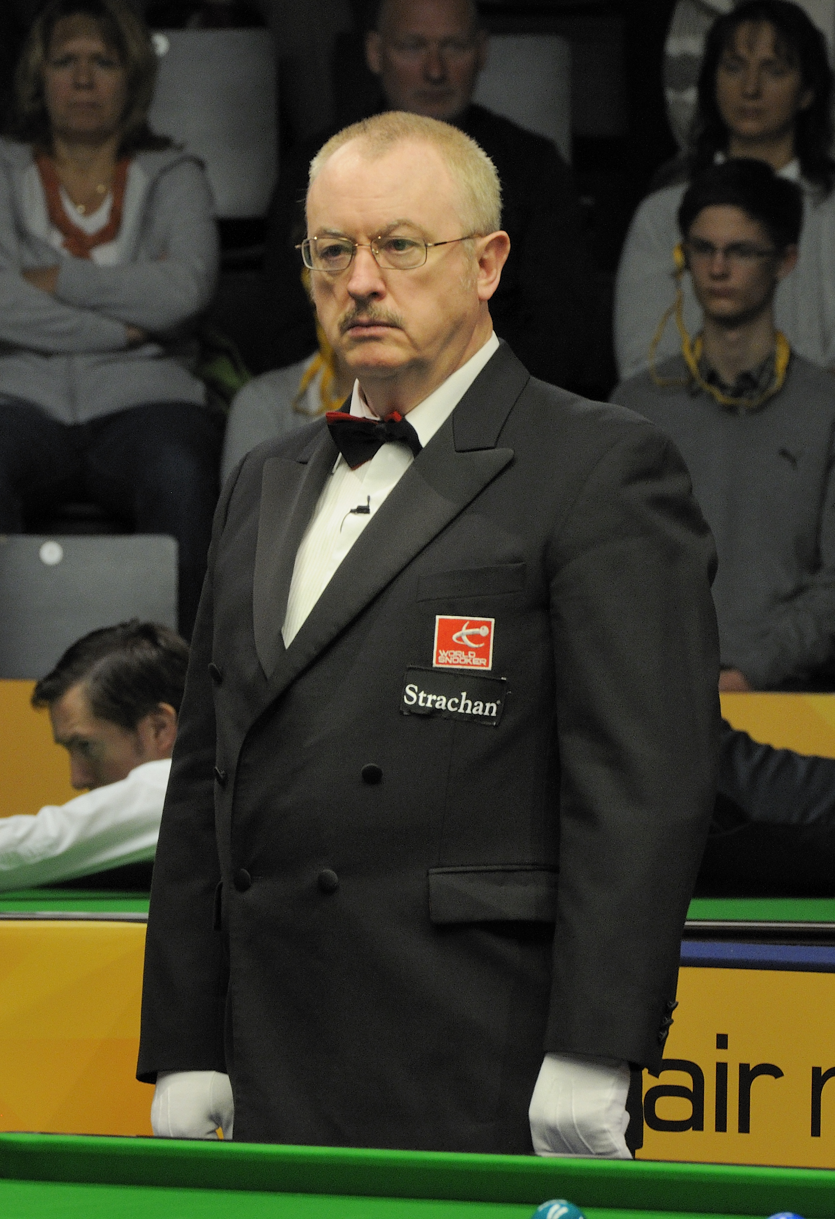 Picture taken in Berlin during the Snooker German Masters in 2013. Eirian Williams.